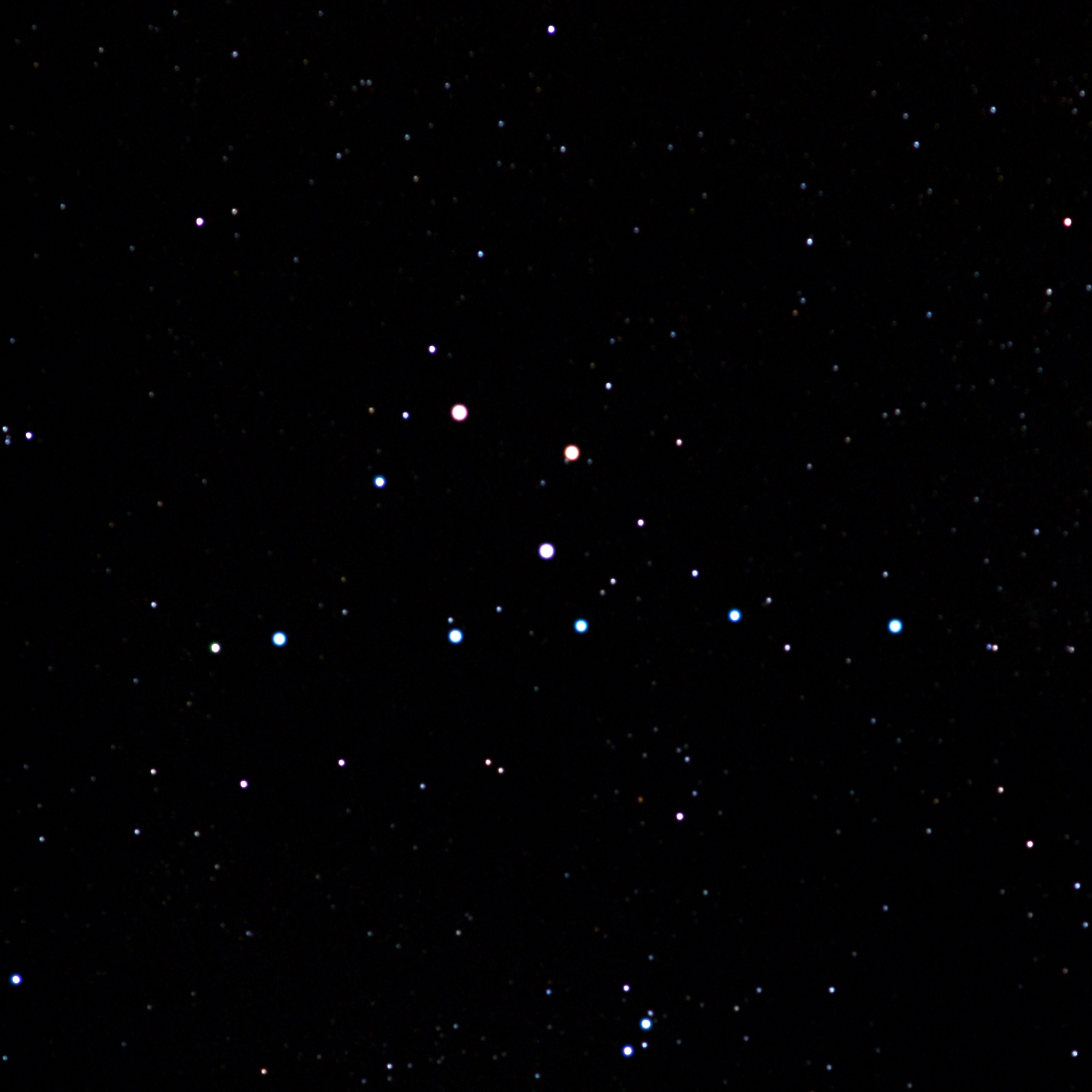 Object: Collinder 399, also known as the Coathanger or Brocchi's Cluster, in Category:Vulpecula. 6 Exposure: 5' (stack of 10 30"-exposures) Exposure start: 21:35 UTC Location: Paslières, Puy-de-Dôme, France Processing: Iris (selective blur = Akira Fuji effect)